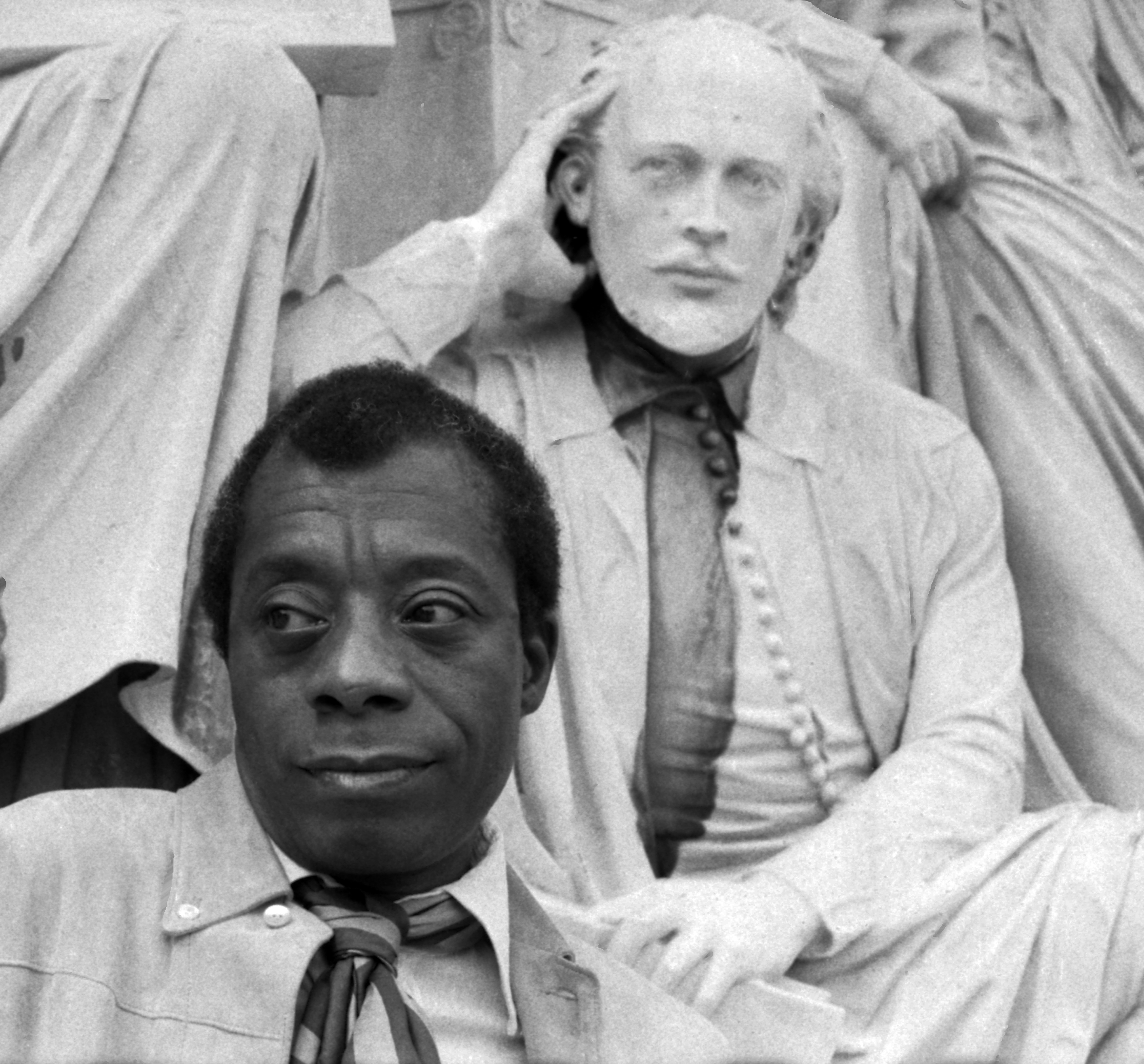 portrait of James Baldwin with the statue of Shakespeare Albert Memorial